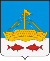 Laishev rayon (Tatarstan), coat of arms